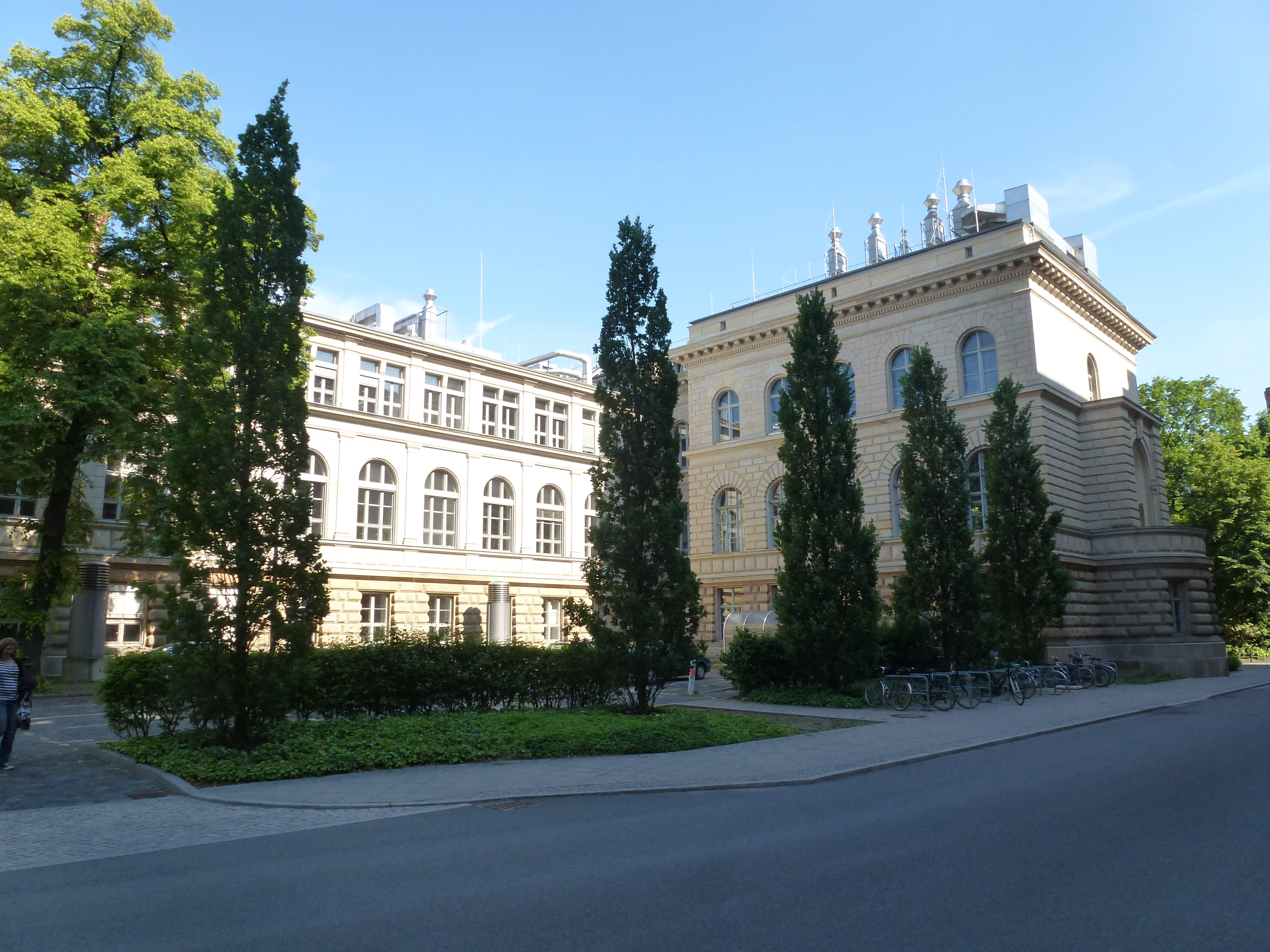 Charlottenburg TU-Institut für Chemie